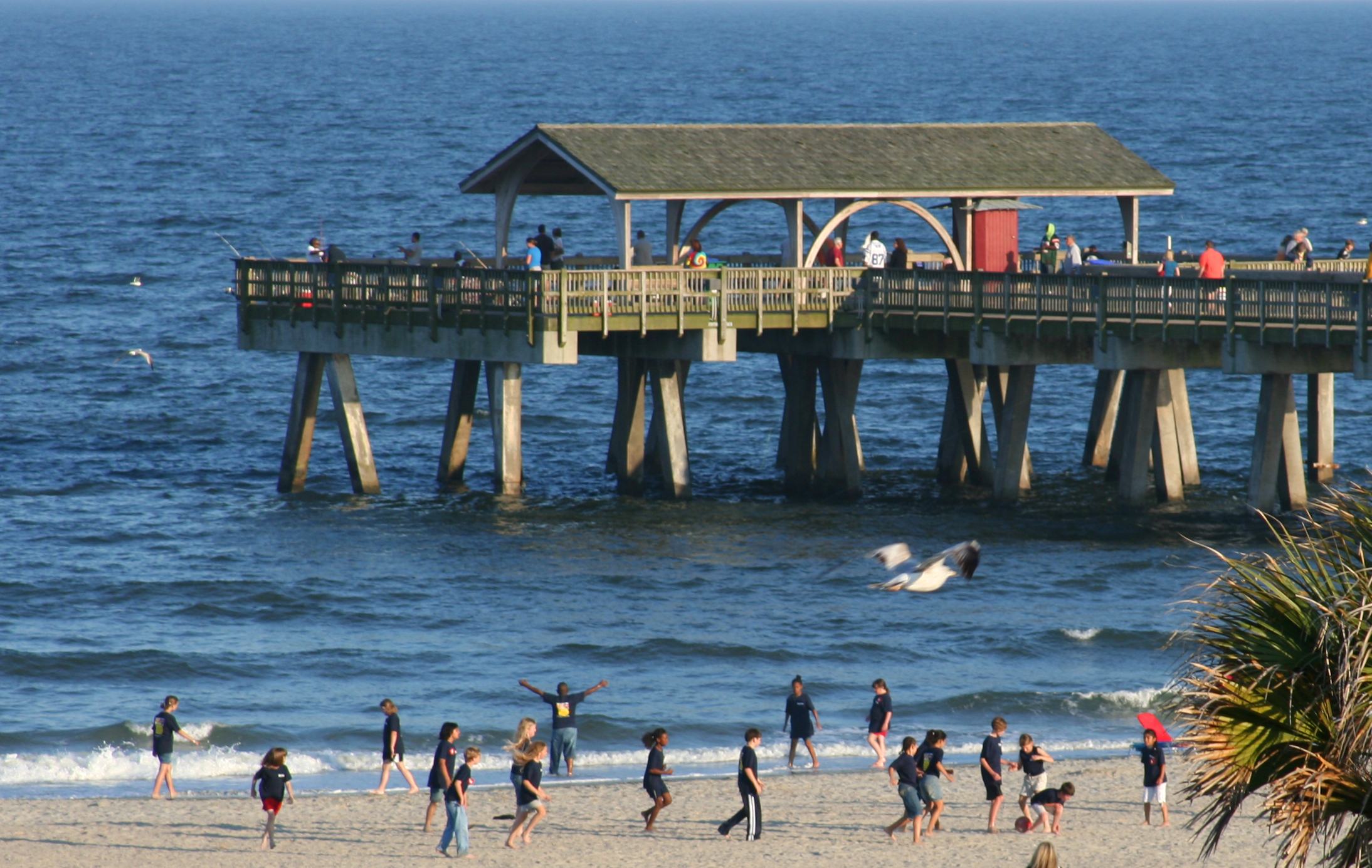 Kids play outside the pier in Tybee Island, GA.